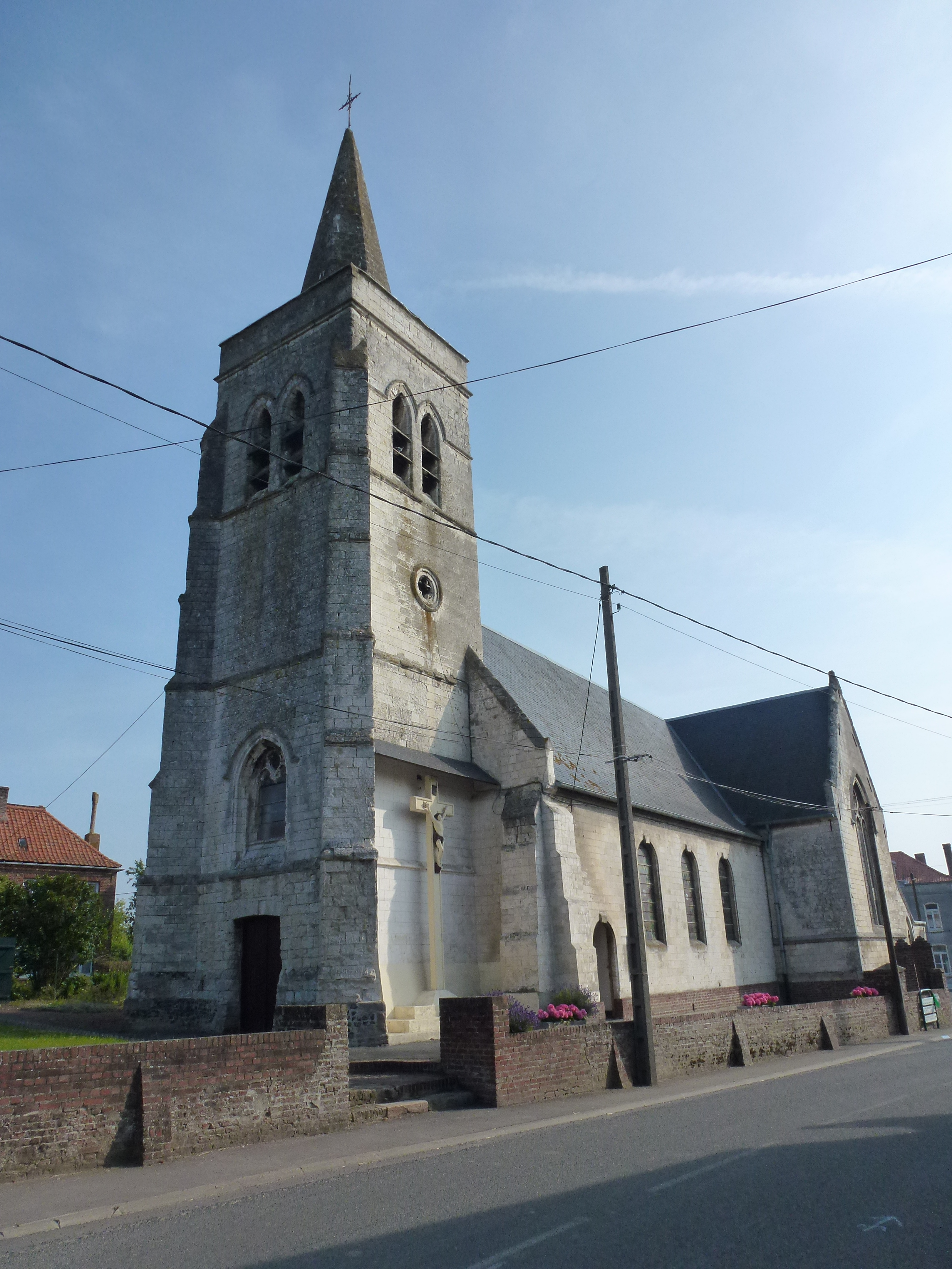 Blessy (Pas-de-Calais, Fr) église Saint Omer, tour